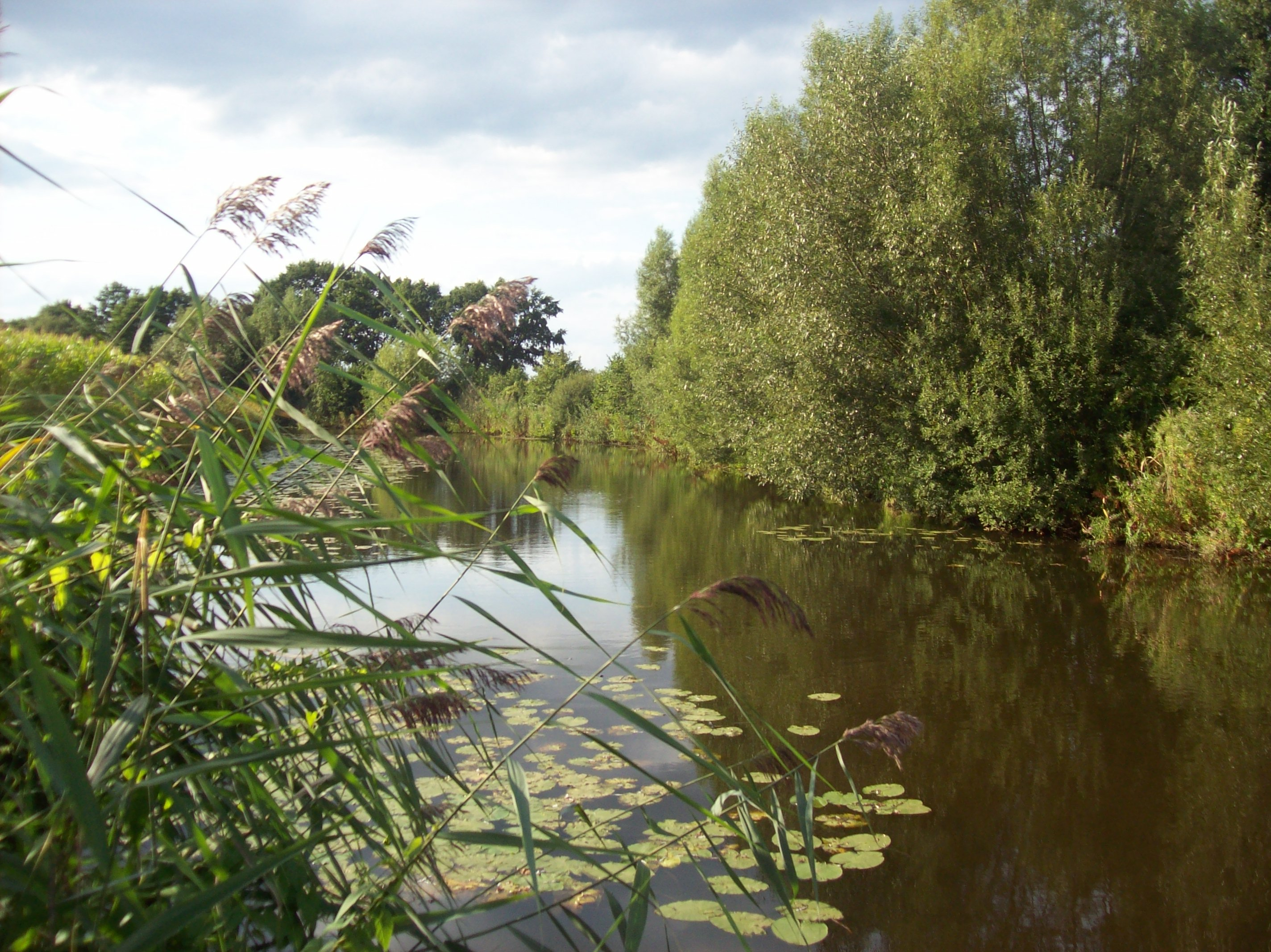 Neetze River